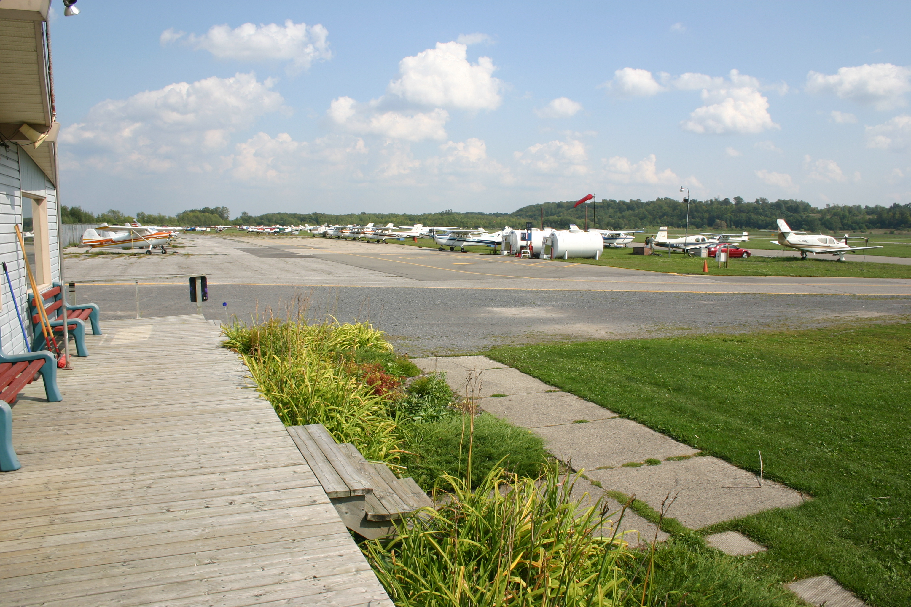 Flight line at Ottawa/Rockcliffe Airport (CYRO), from the clubhouse porch.